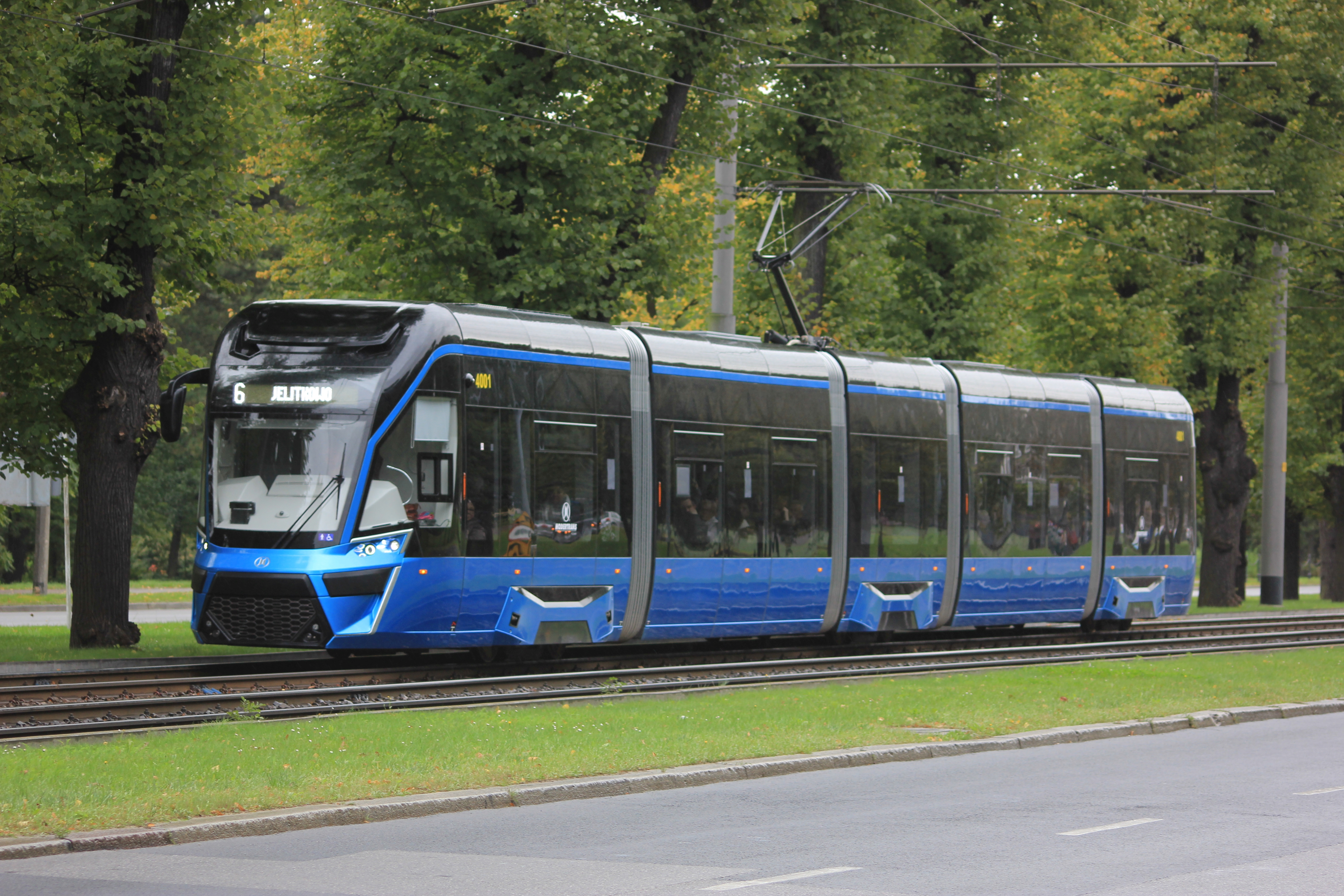 Gdańsk - Moderus Gamma LF 01 tram #4001 on line No. 6 in Zwycięstwa av.